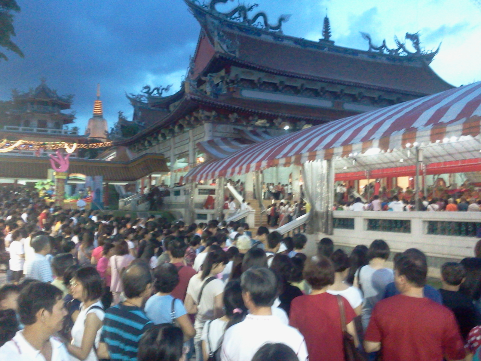 Celebrations before Vesak Day at Kong Meng San Phor Kark See Monastery, Singapore.